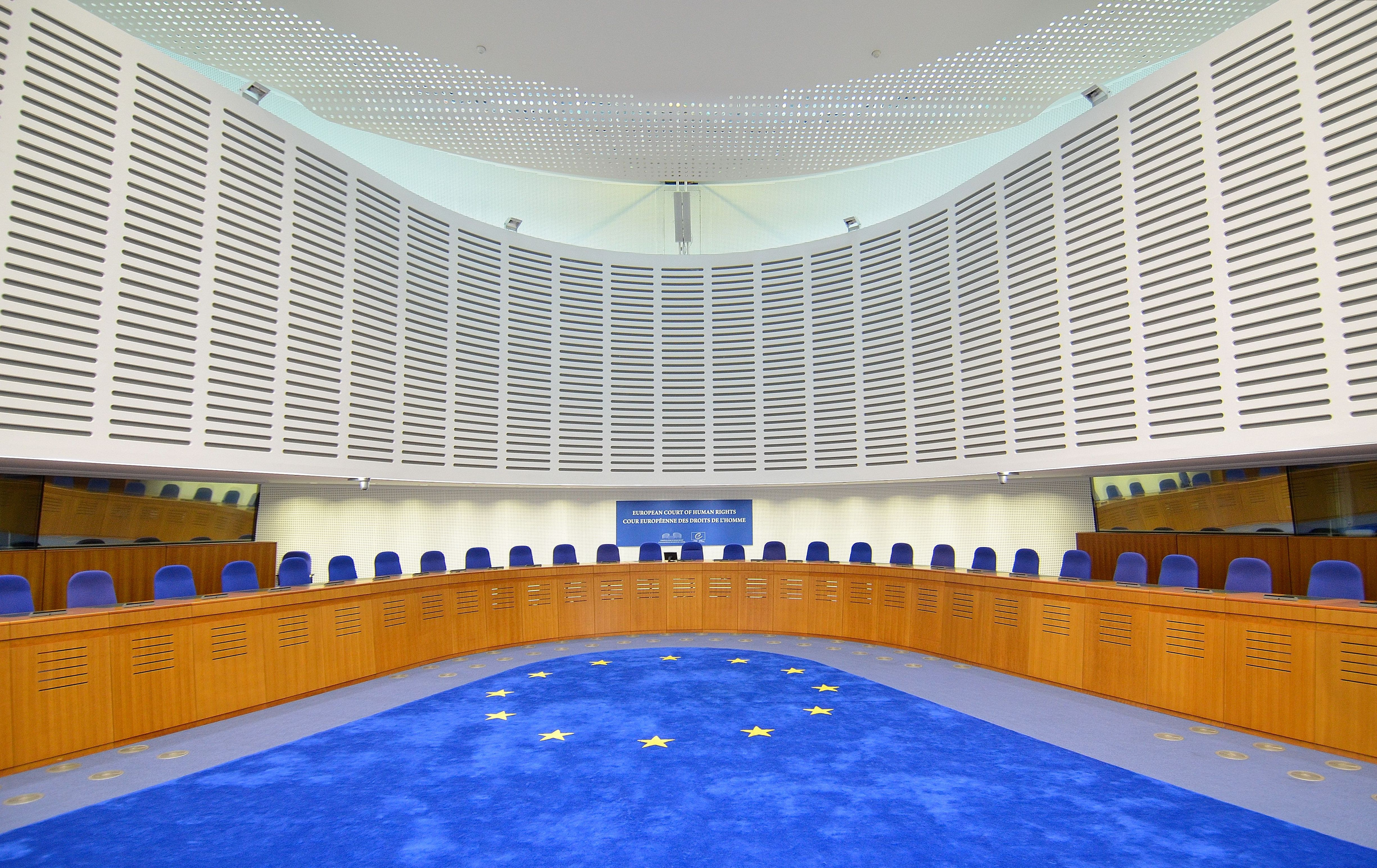 Courtroom of the European Court of Human Rights in Strasbourg